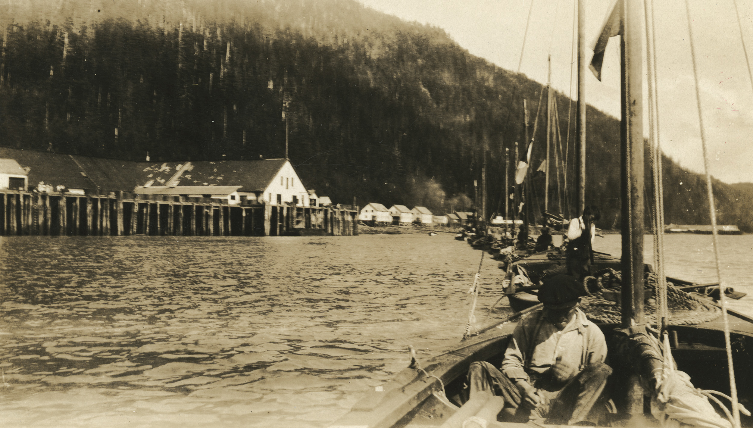 Reminder: No known copyright restrictions. Please credit UBC Library as the image source. For more information, see Date: 1926 Note: Related material: BC_1532_1332_1-2. Published in The Fisherman, January 25, 1974. Digital Identifier: BC_1532_1332_003 Source: Original Format: University of British Columbia. Library. Rare Books and Special Collections. Fishermen Publishing Society fonds. BC_1532_1332_3 Permanent URL